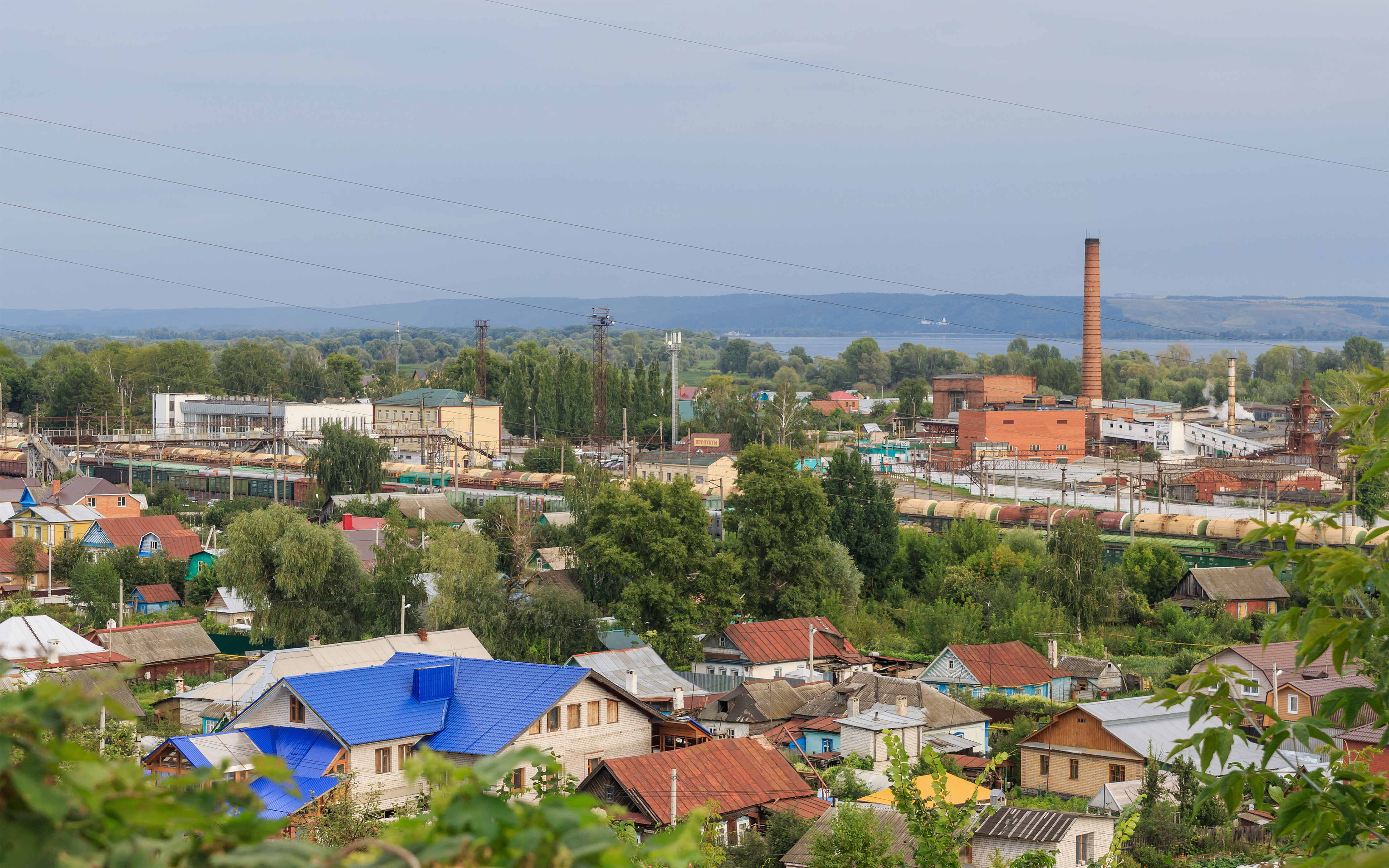 Cityscape near Zeleny Dol railway station in Zelenodolsk, Tatarstan, Russia